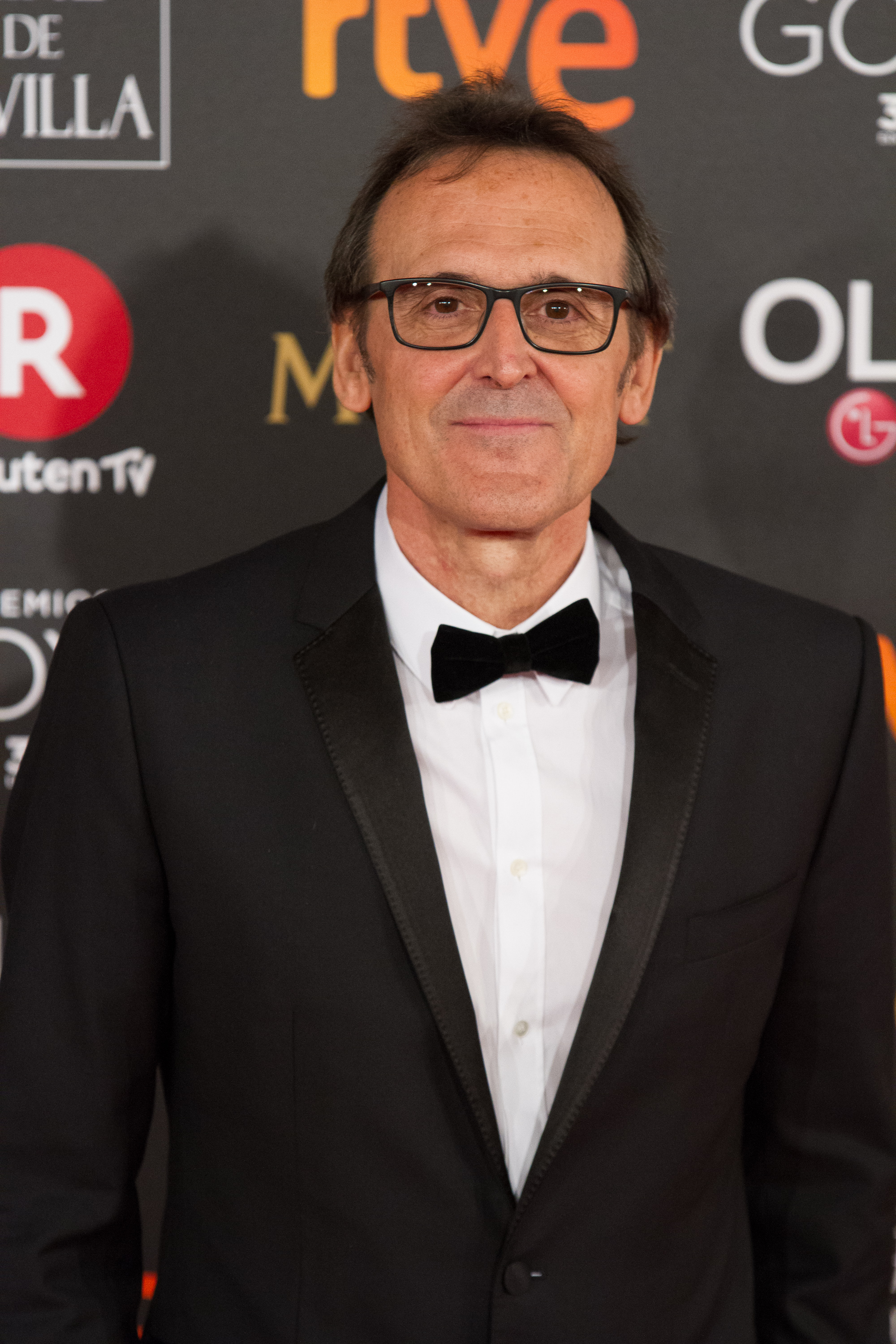 Alberto Iglesias at the 32nd Goya Awards, 2018.